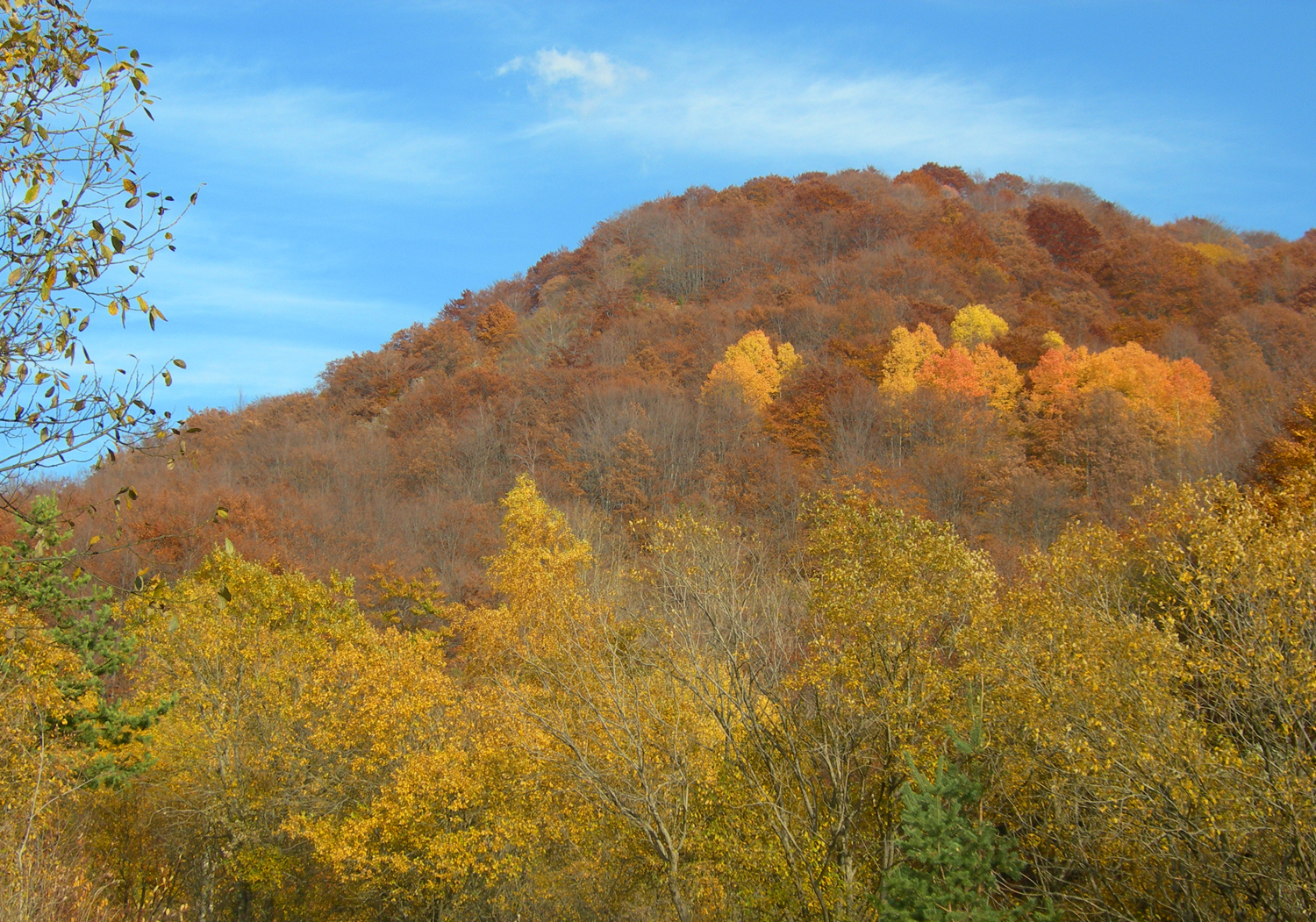 Forest hill in autumn